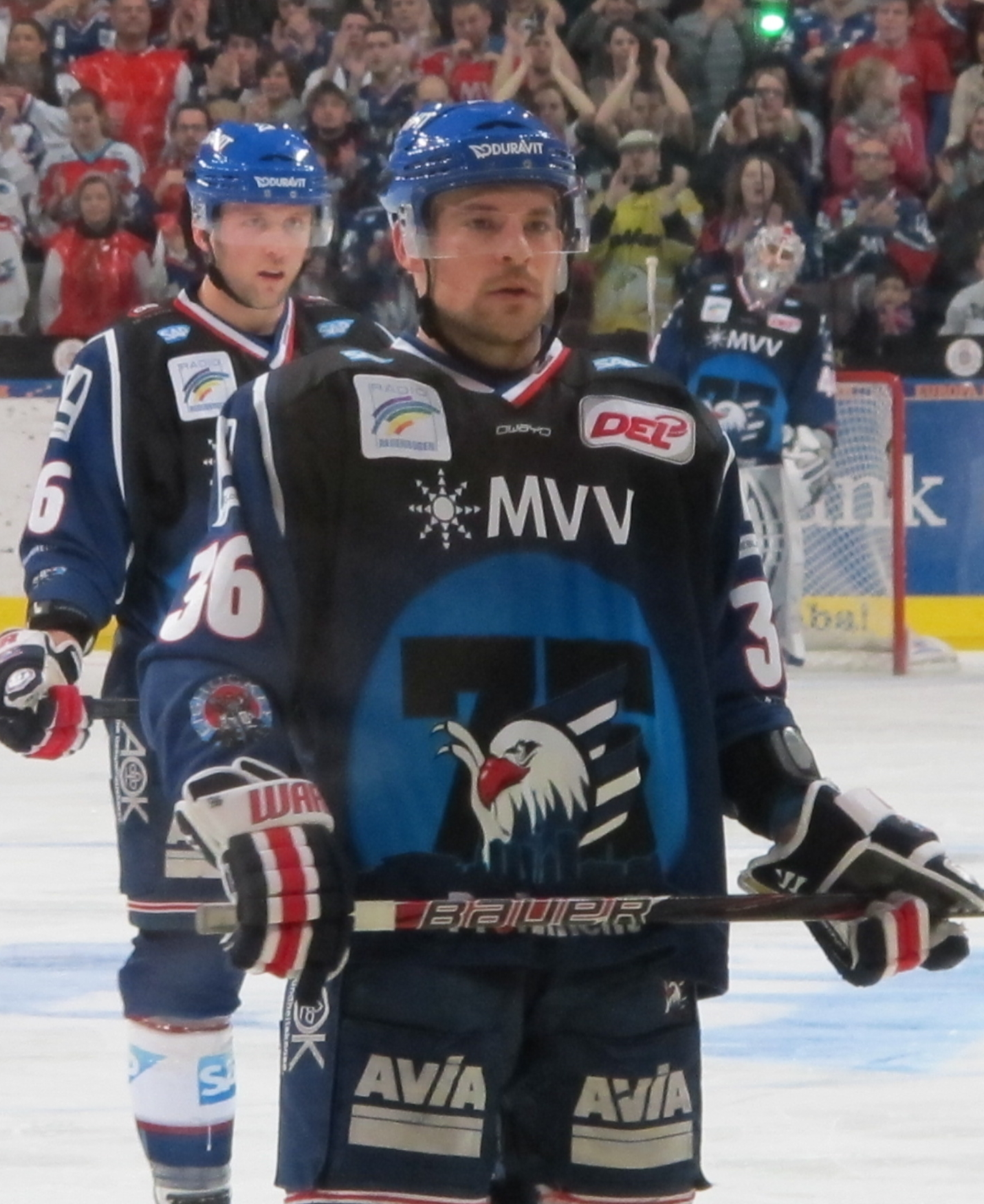 Yannic Seidenberg, german ice hockey player, forward